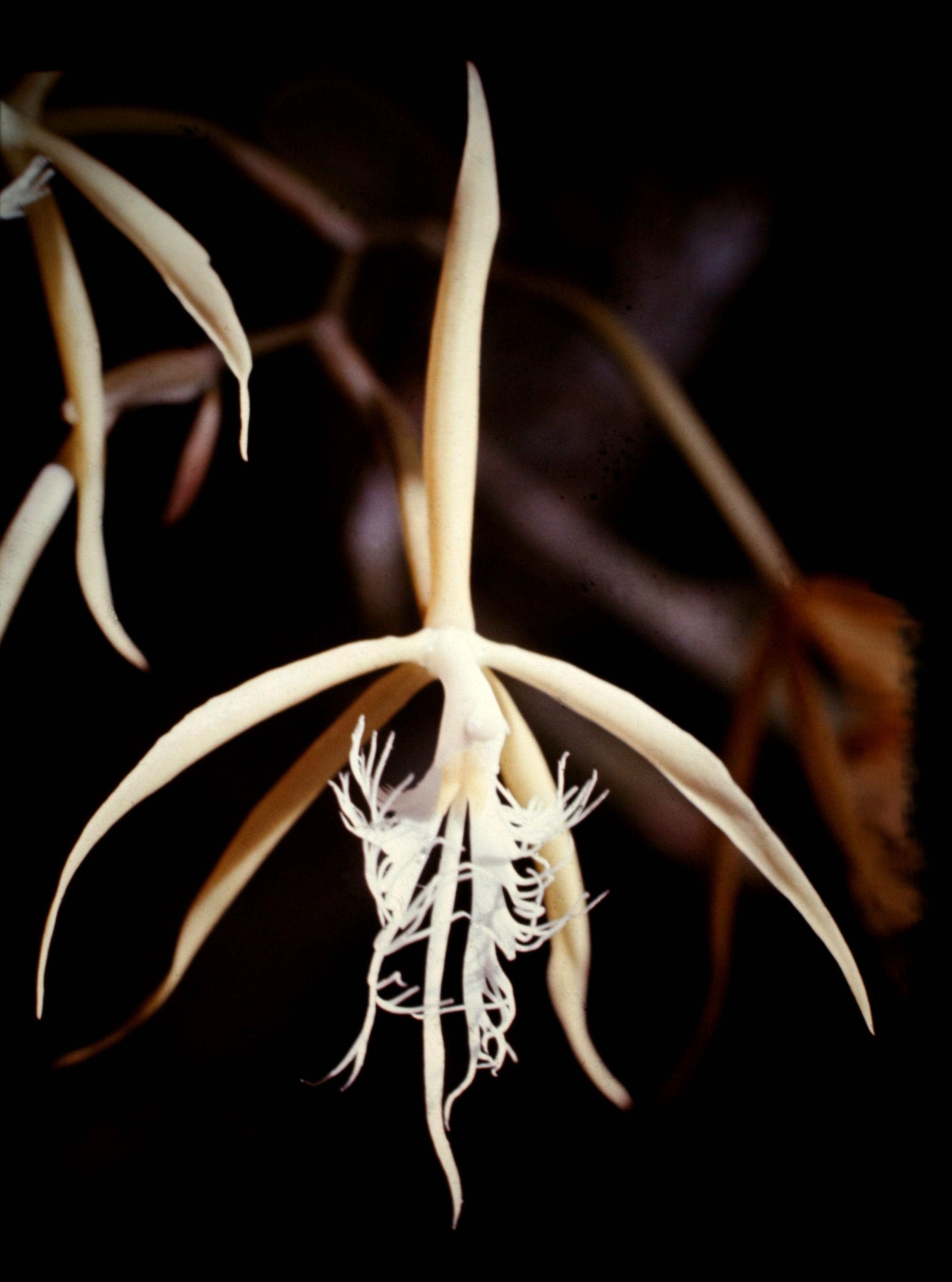 Epidendrum ciliare , Plant collected in French Guiana. Syn: Aulizia ciliaris